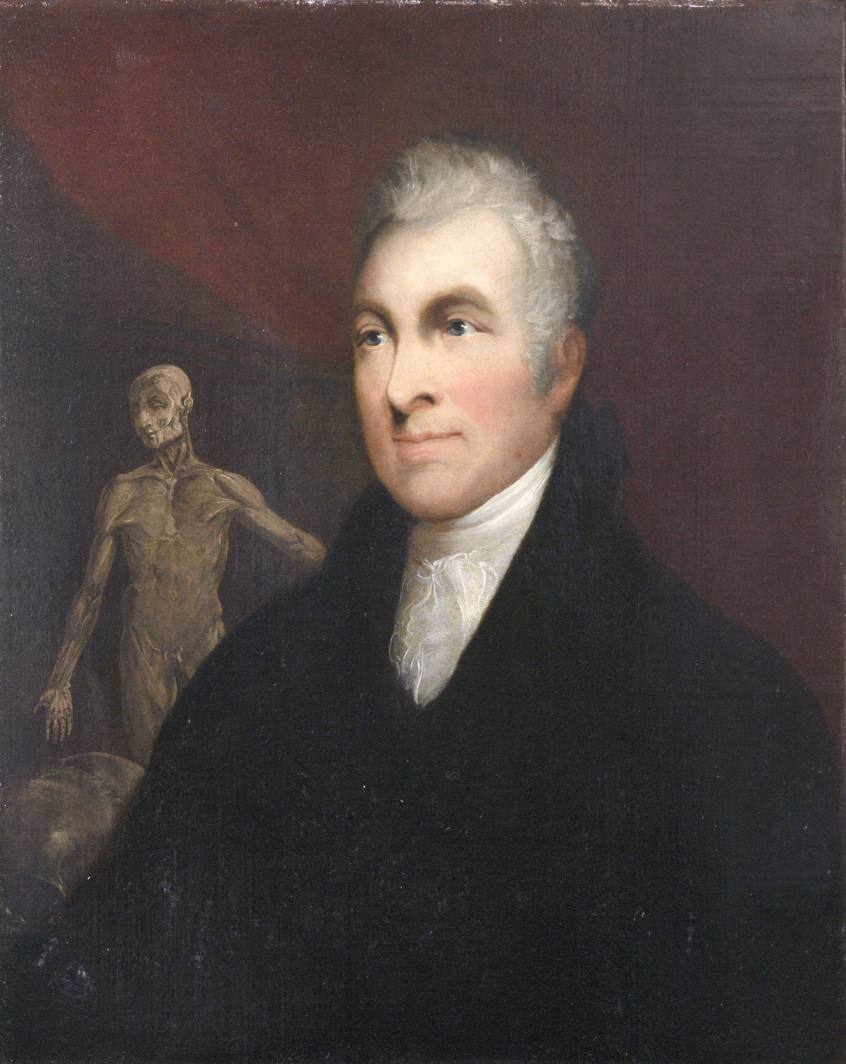 Portrait of John Sheldon (1752–1808), English surgeon and anatomist.